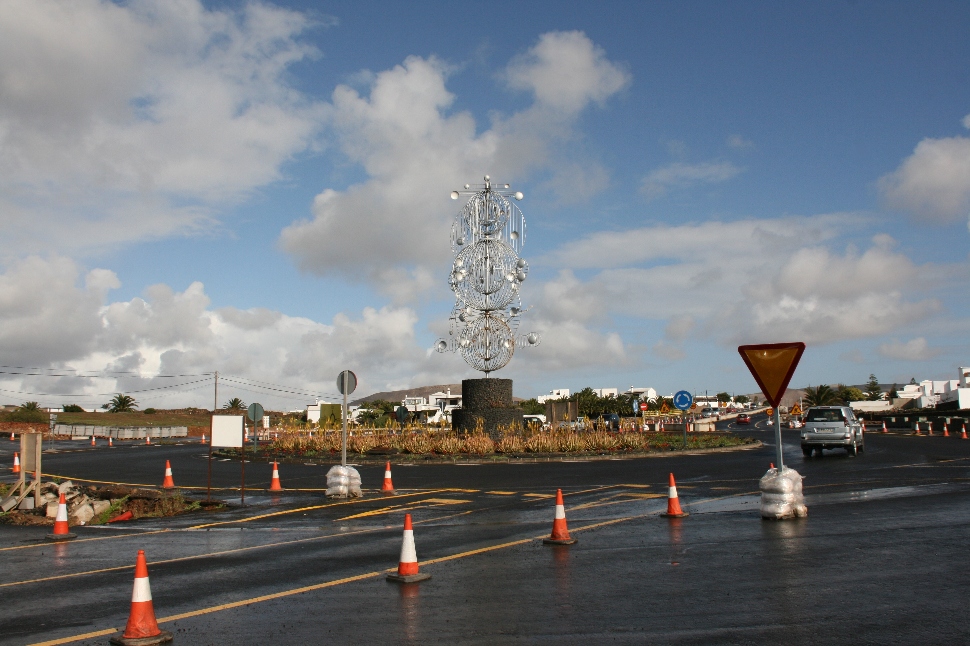 Roundabout of road LZ-1 and LZ-10 in Tahiche, Teguise, Lanzarote, Canary Islands